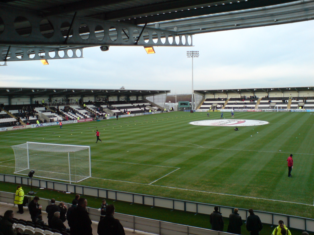 View from the south stand, looking towards the railway end. Main Stand (right) and West Stand(left)